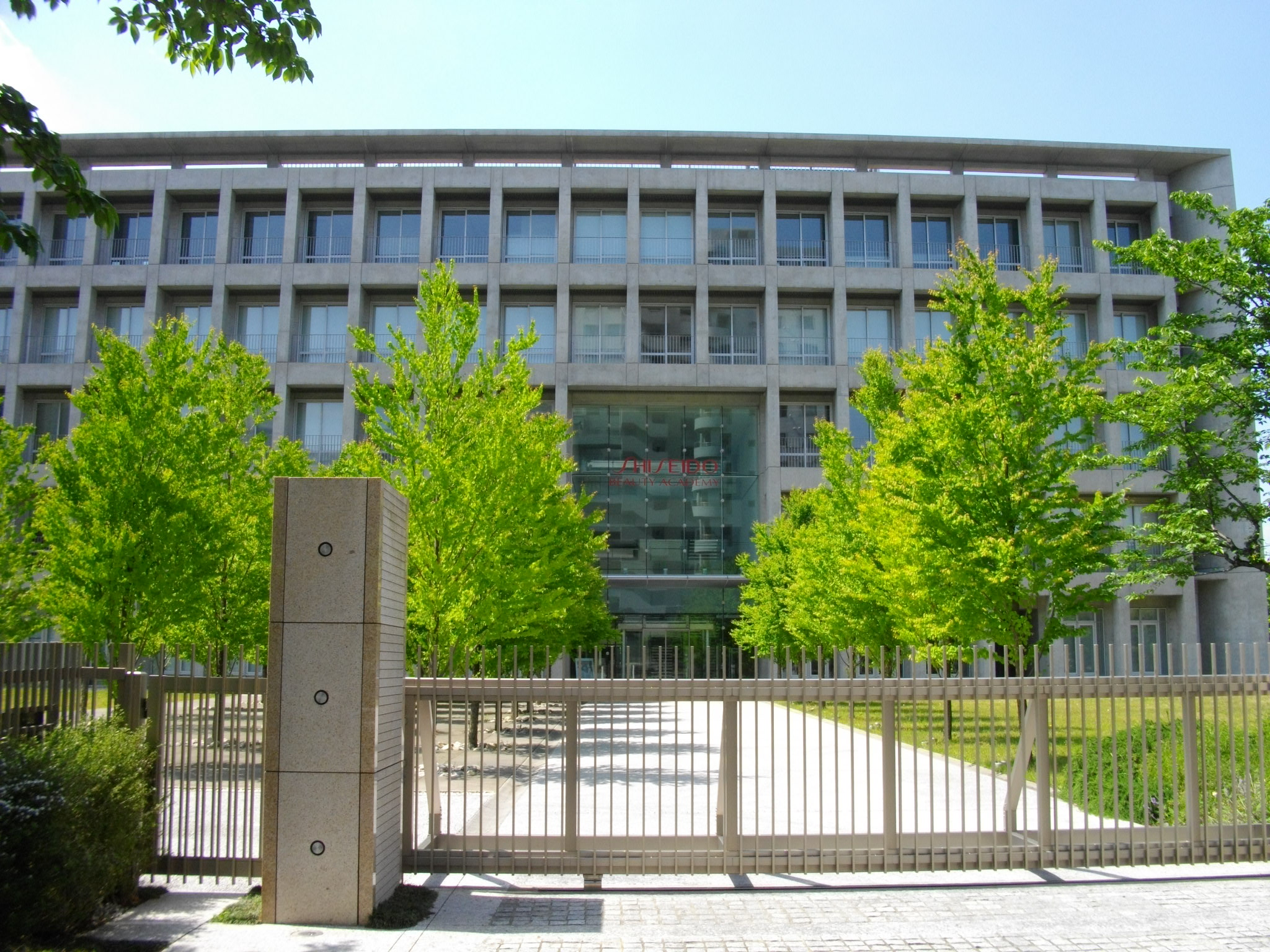 Shiseido Beauty Academy